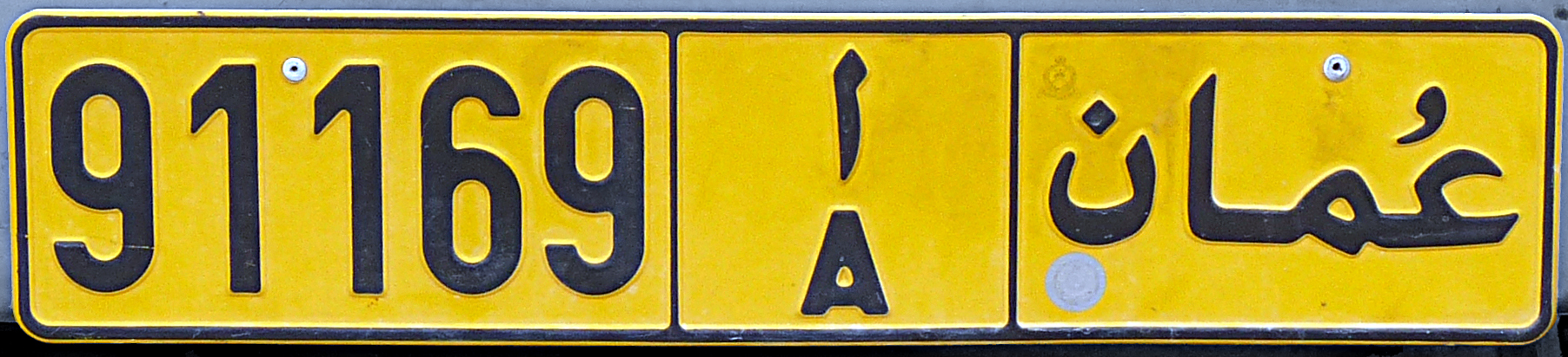 License plate of Oman 2001 series